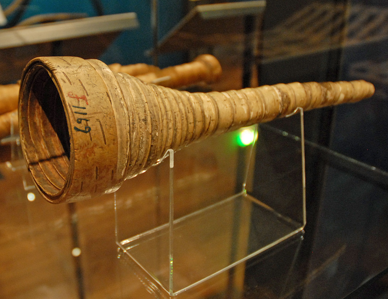 Birch trumpet for shepherd. From Finland.